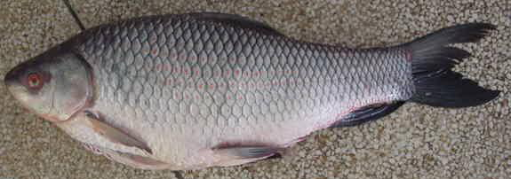 Labeo rohita